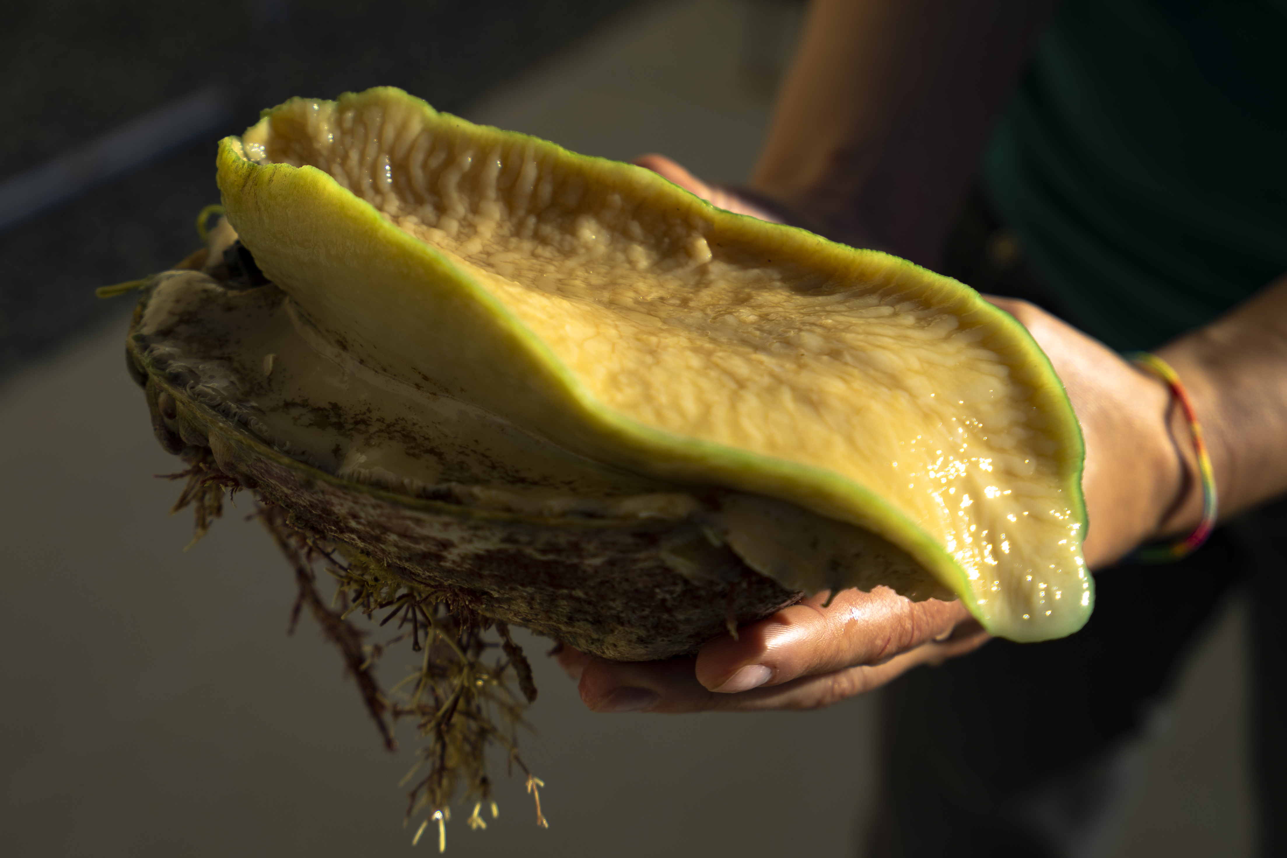 Green lip abalone from Western Australia